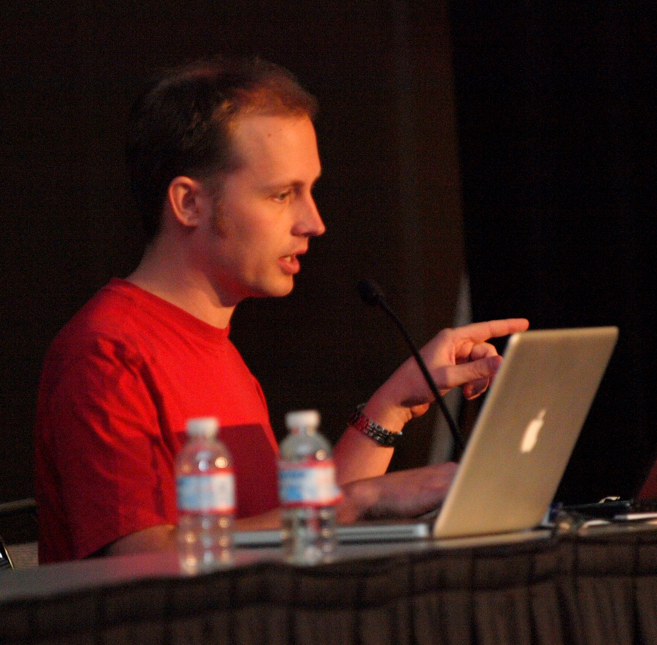 Jarrad Woods, aka Farbs, at the Game Developers Conference in 2010 (fourth day), speaking at "The Nuovo Sessions".